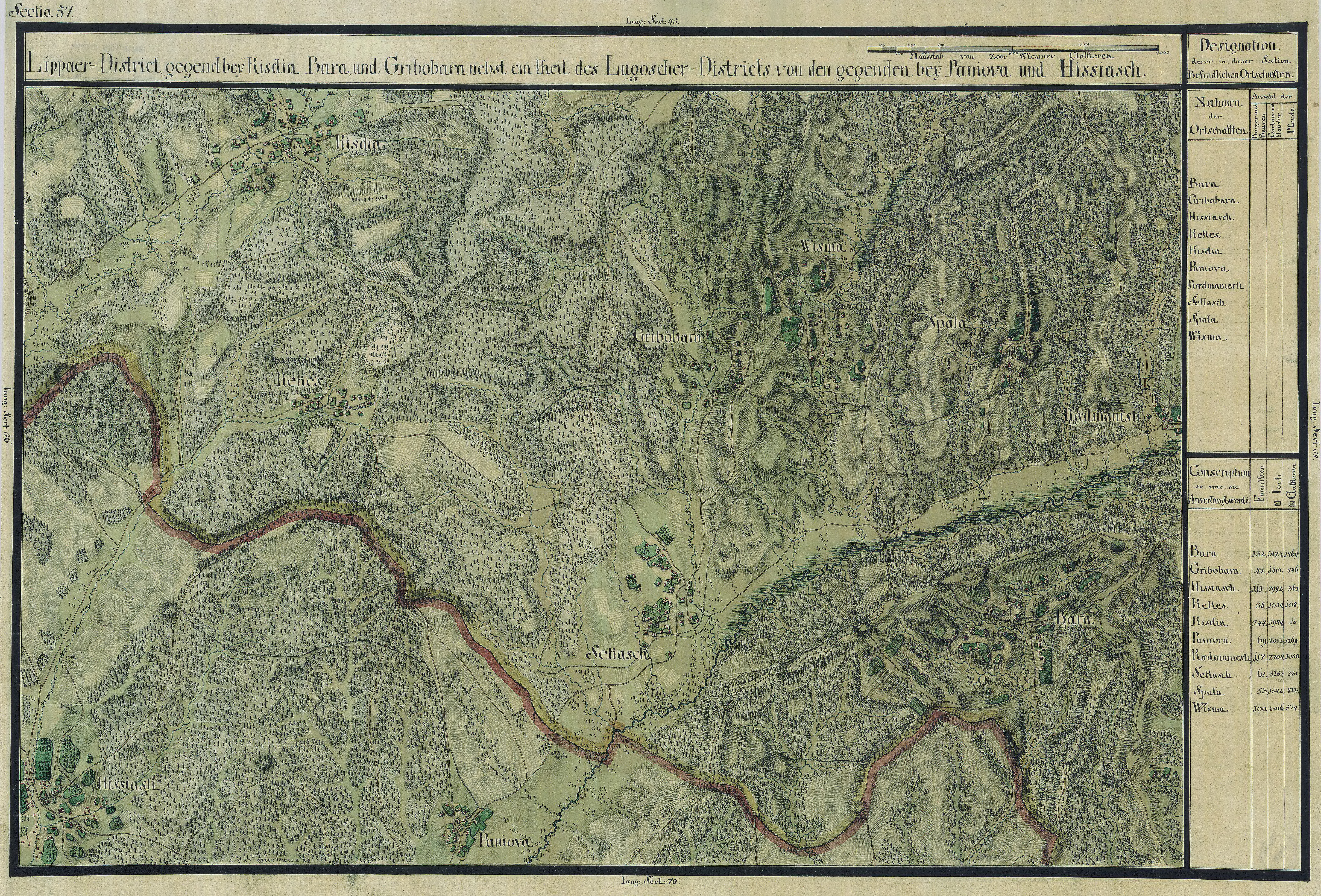 The Banat region in the cadastral maps: Josephinische Landesaufnahme, 1769-72. Josephinische Landaufnahme pg057